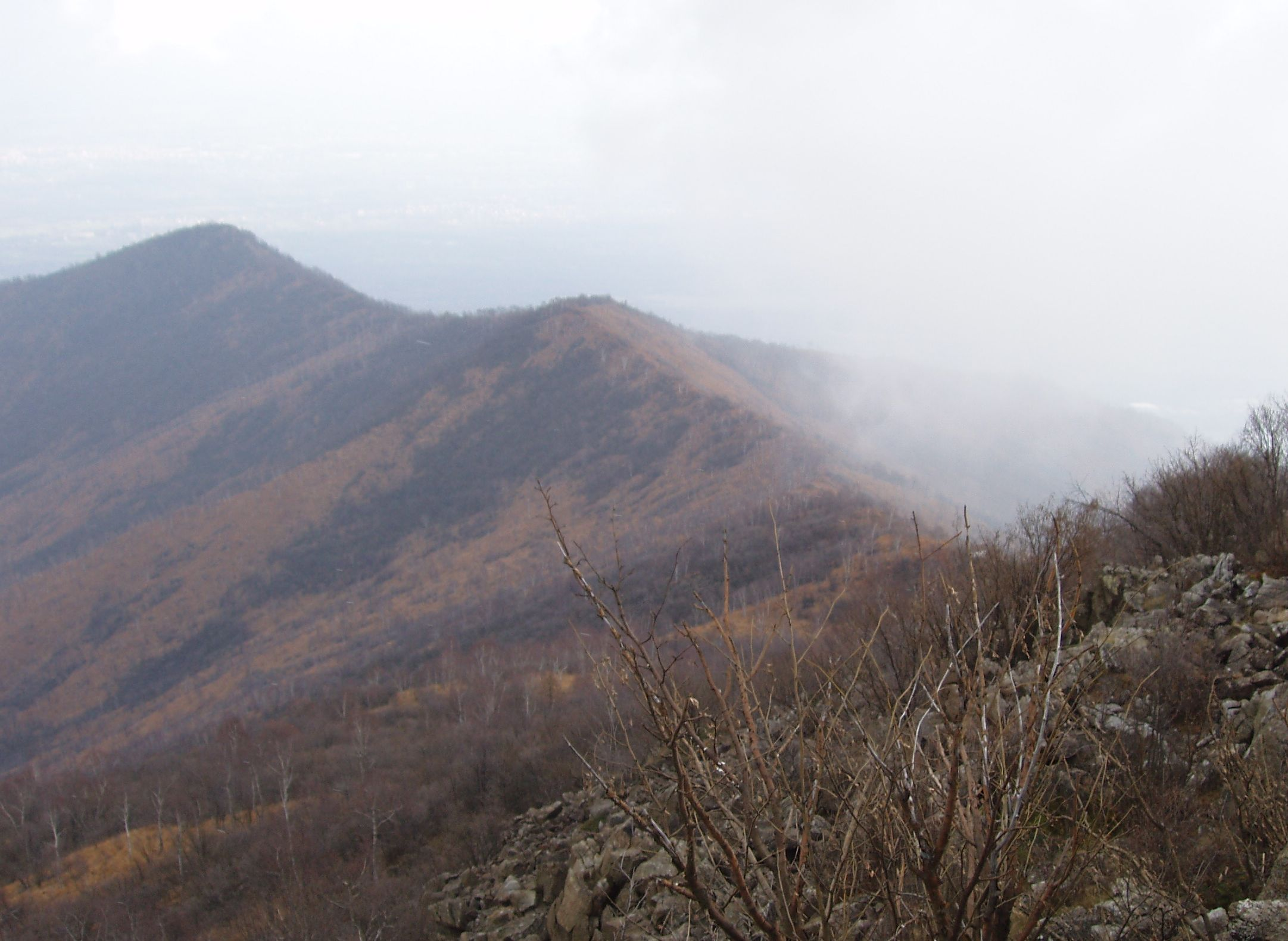 Punta Fournà and Mount Bernard from Mount Lera (Italy, Piedmont)